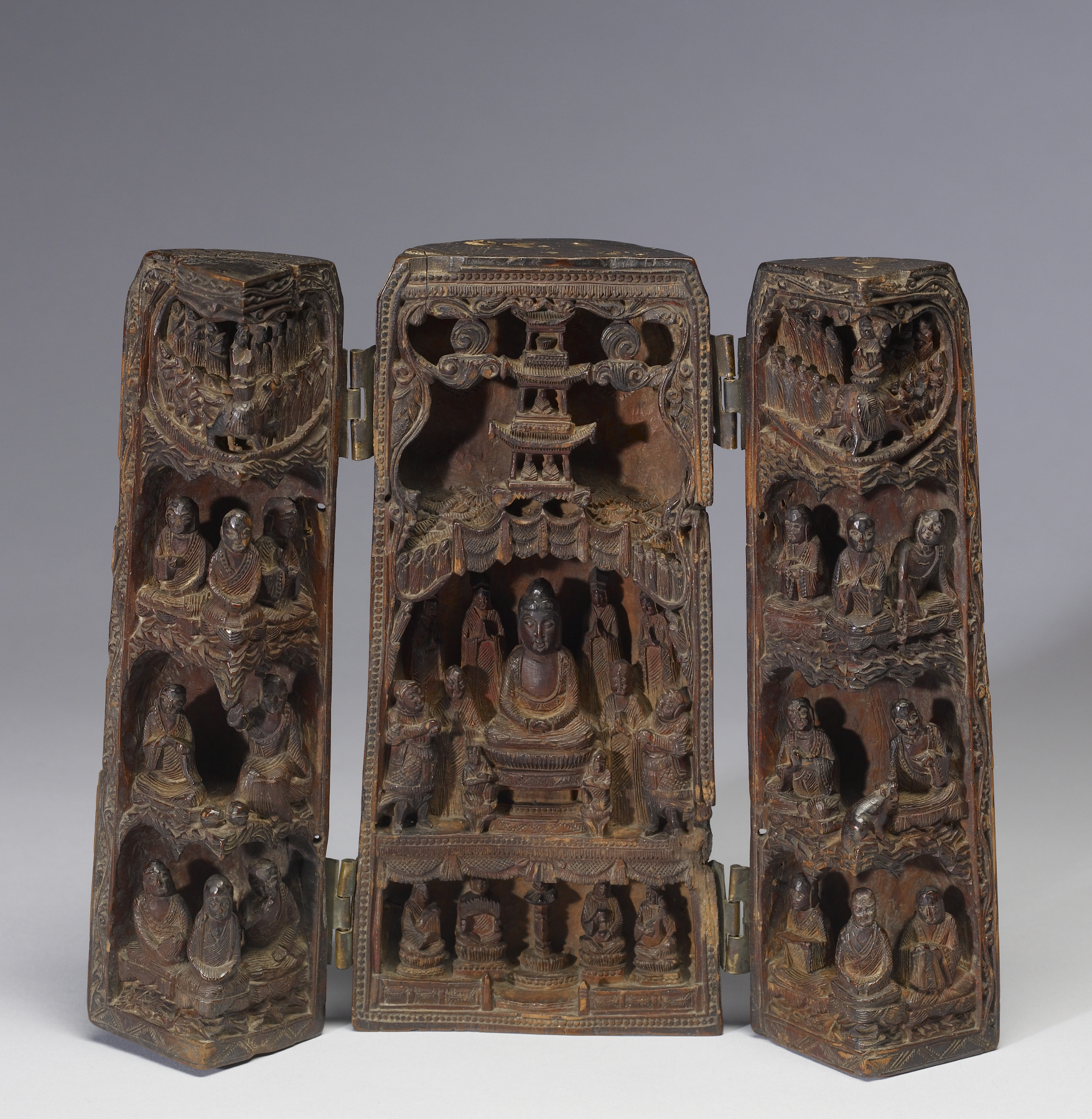 This is a portable shrine of the type that played a role in the transmission of Buddhism from Central Asia to China, and from China to Korea and Japan. Carved out of a single piece of wood somewhere in China, it may have been subsequently carried to Japan. Most of the figures can be identified, but it is not customary to show them all together. The historical Buddha Sakyamuni is shown preaching the Lotus Sutra, one of the Mahayana Buddhist texts. He is flanked by his chief disciples and by donors. Above, Buddha from the distant past appears, and below an orchestra plays. On wings at the top are a pair of Bodhisattvas, Manjusri and Samantabhadra. Below them are the sixteen disciples of Sakyamuni called arhats (the Sanskrit word for a highly realized Buddhist ascetic) or lohan in Chinese.